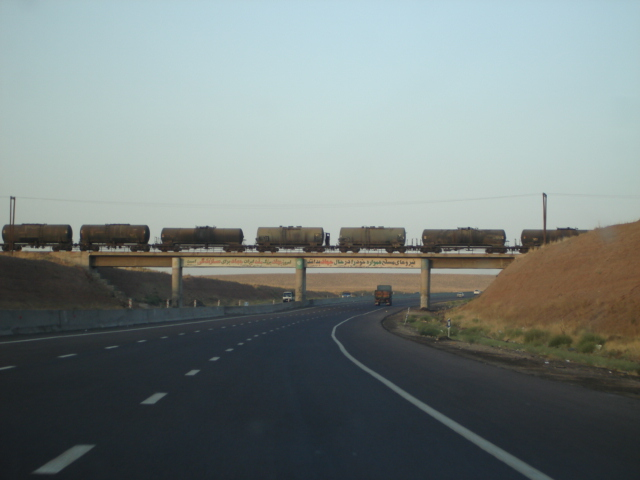 View of Tehran Saveh highway from Tehran to Saveh